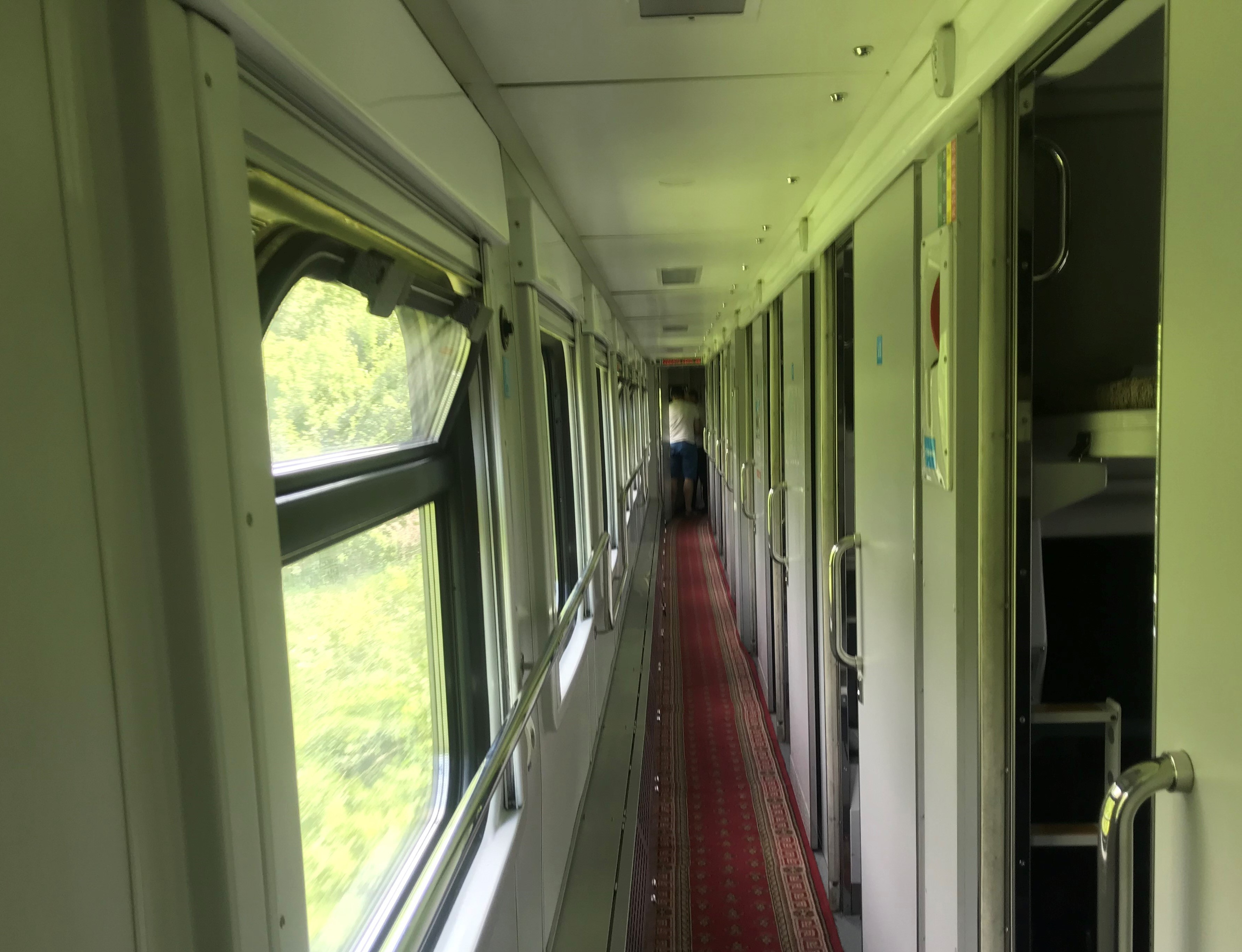 Interior of Ukrainian sleeping car while going from Kiev to Zaporozhie via Dnipro.